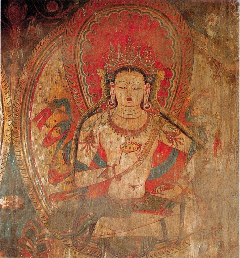 Bodhisattva, wall painting in the Dukhang, Tabo monastery, Spiti. ca. 1st half of the 11 century, possibly 1040s.